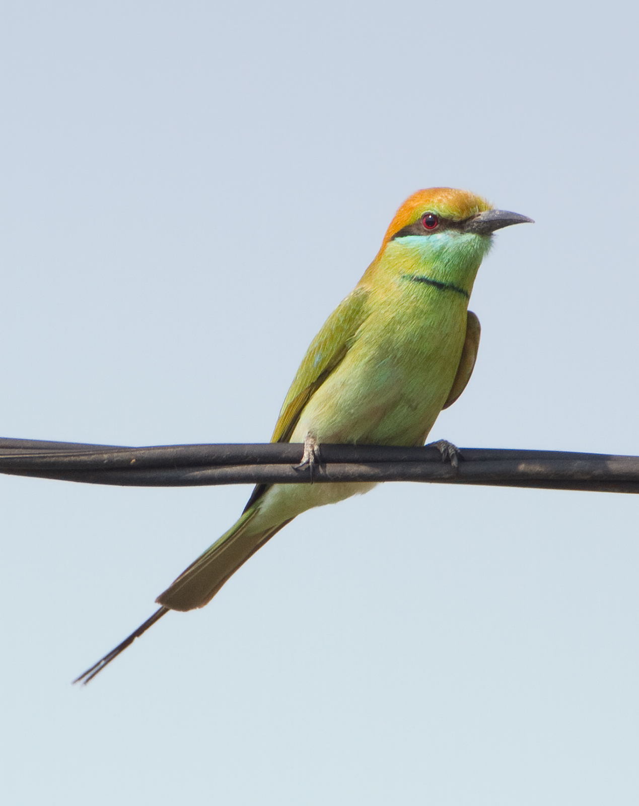 Green Bee-eater (Merops orientalis), Pak Thale, Ban Laem, Phetchaburi, Thailand